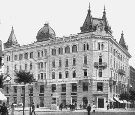 Marszałkowska Street in Warsaw about 1904